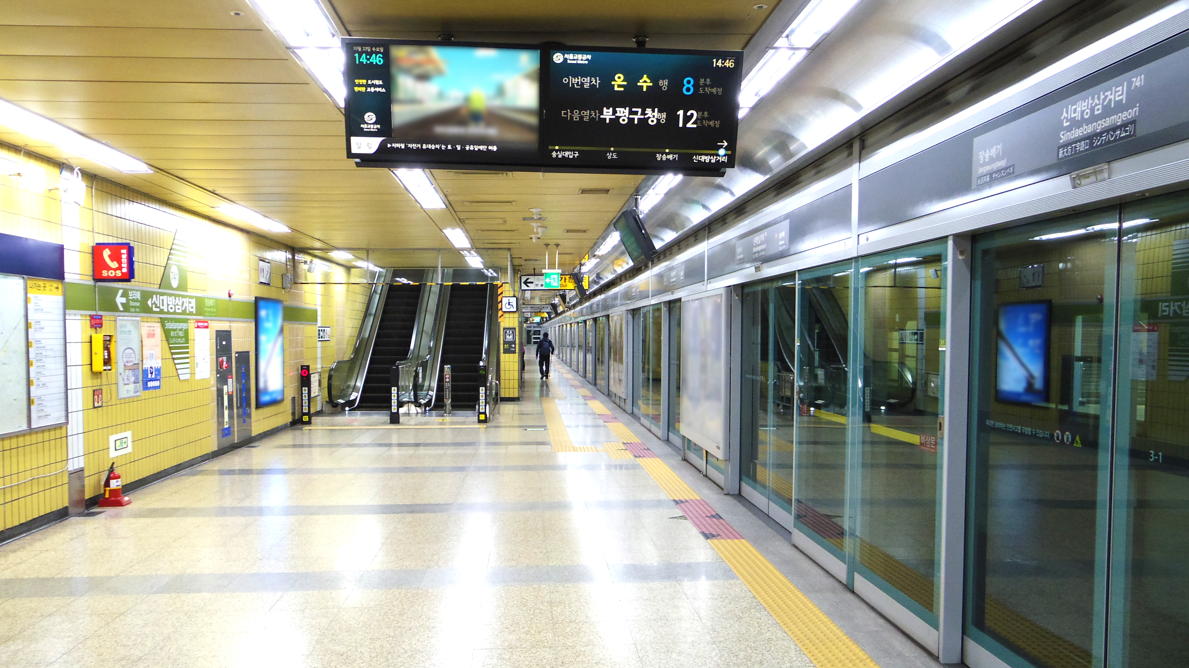 The Onsu-bound platform at Sindaebangsamgeori Station on the Seoul Subway Line 7 in Dongjak-gu, Seoul, Republic of Korea(South Korea)